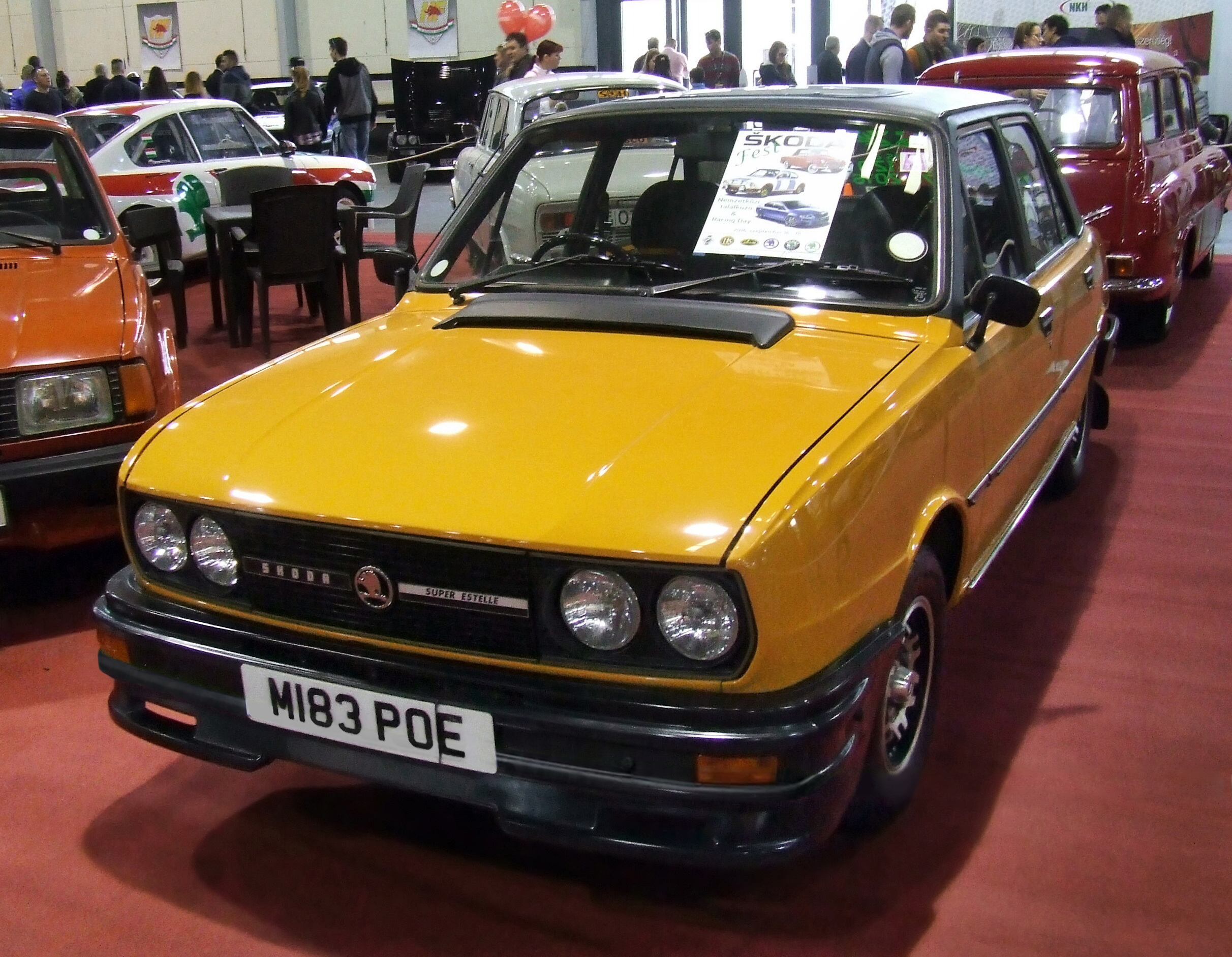 Budapest, AMTS, Nemzetközi Autó, Motor és Tuning Show 2016